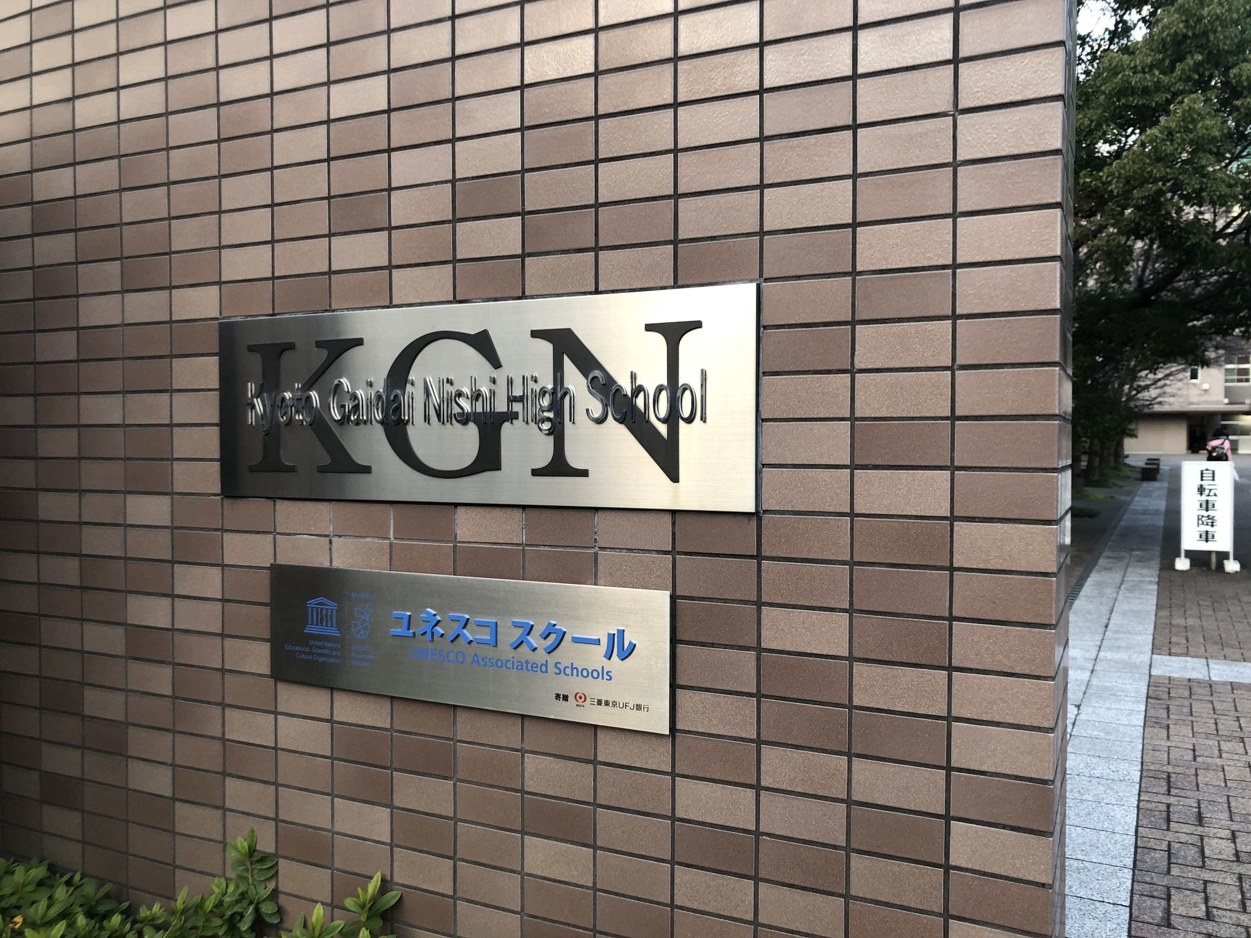 Name plate of KGN at the main gate of the high school with the name plate of UNESCO School below